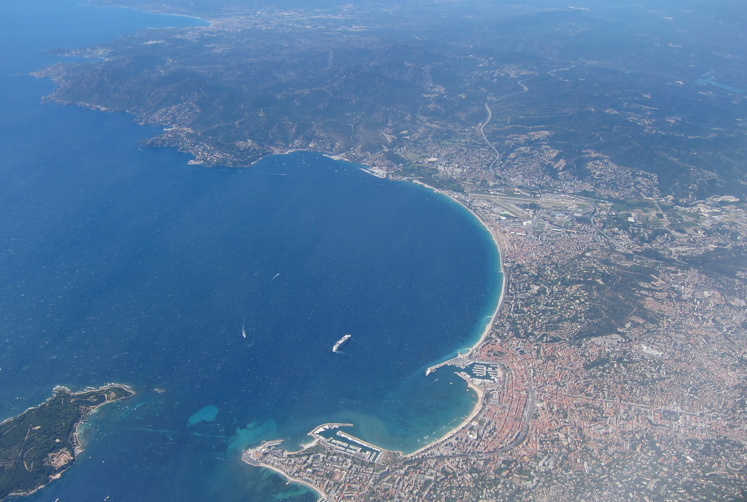 Aerial view of the bay of Cannes, France. The Massif de l’Esterel is seen in the background.